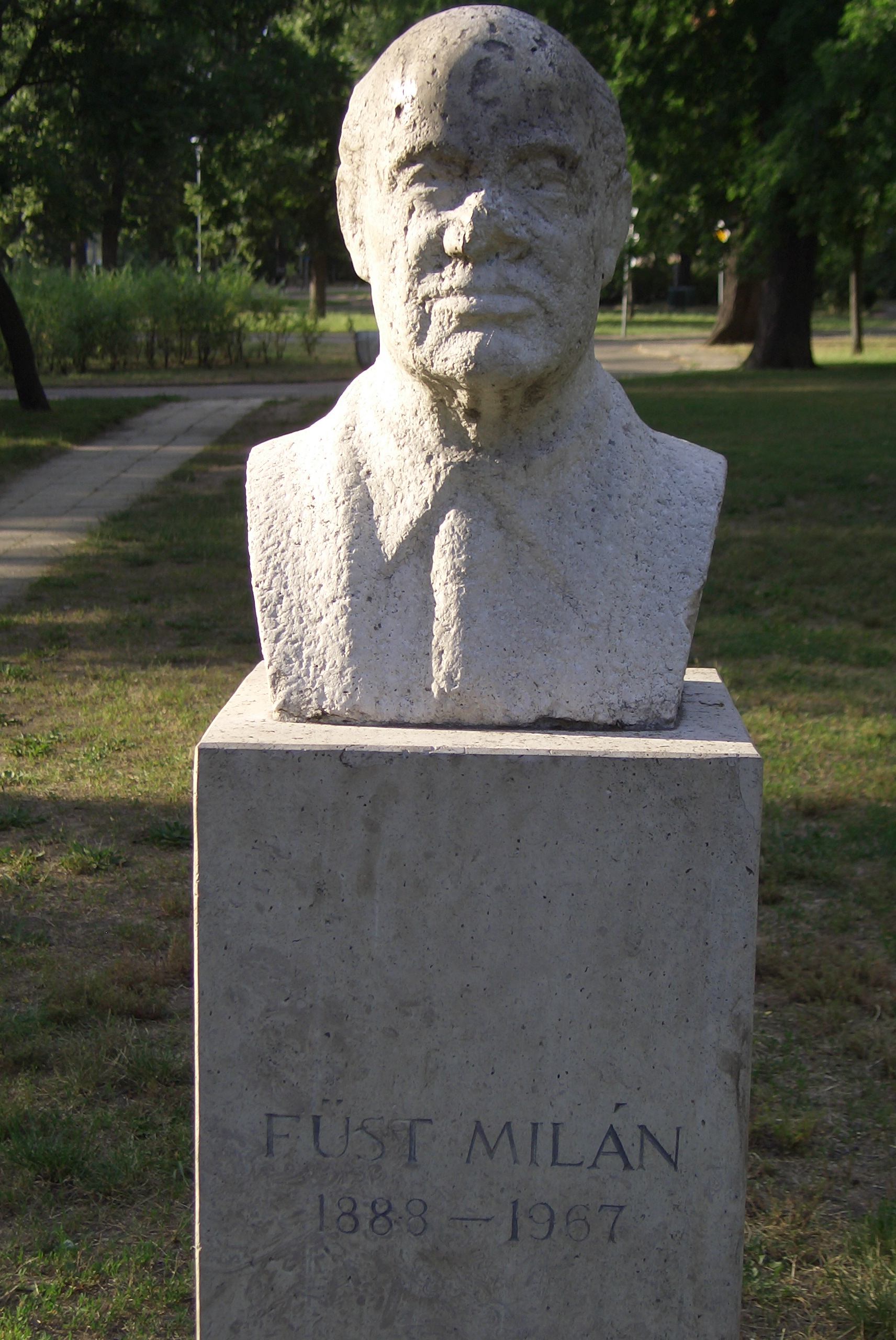 Bust of Milán Füst (1888–1967), Hungarian writer, poet, playwright, in City Park, Budapest XIVth district